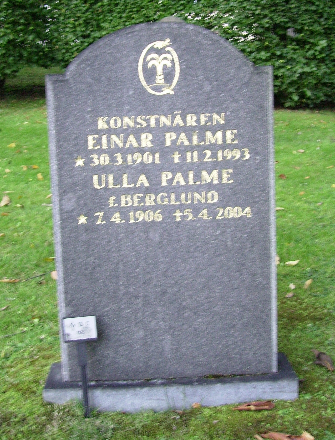 Picture of Einar Palme's grave at Norra begravningsplatsen in Stockholm